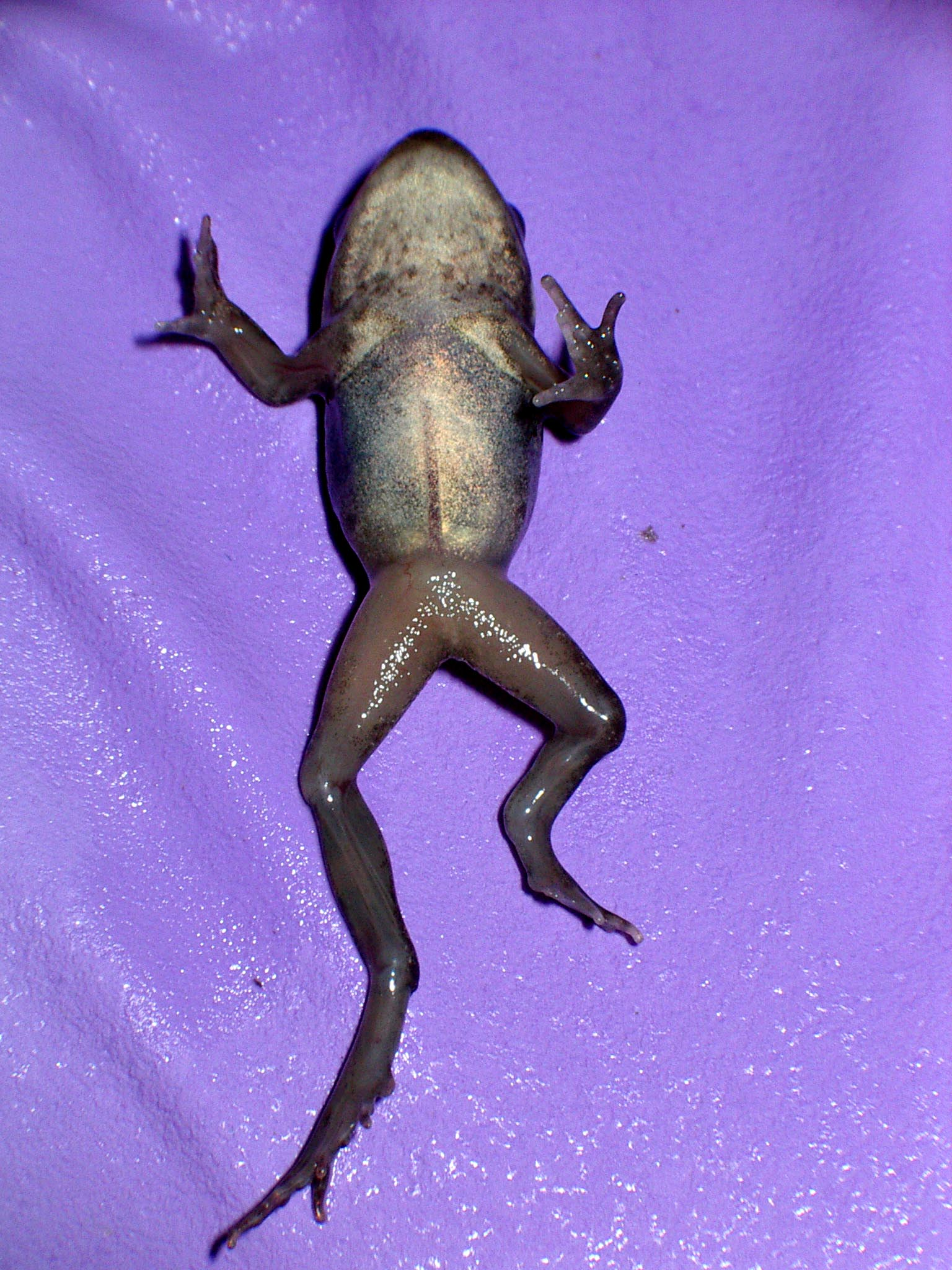 Original title and caption states, "Examples of Different Amphibian Abnormalities. Skeletal Malformation - Hemimelia with shrunken calf and foot and normal length thigh"